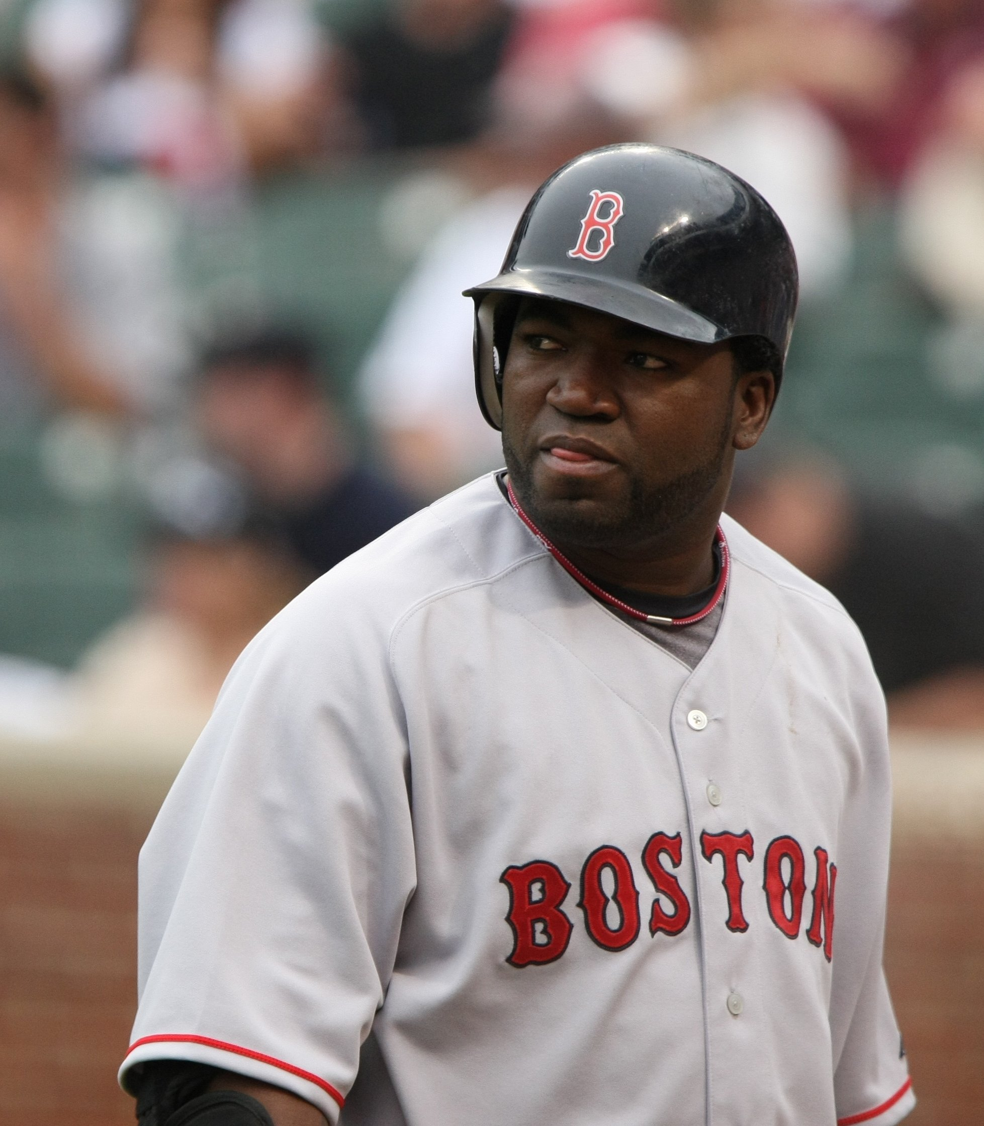 David Ortiz Boston Red Sox player.